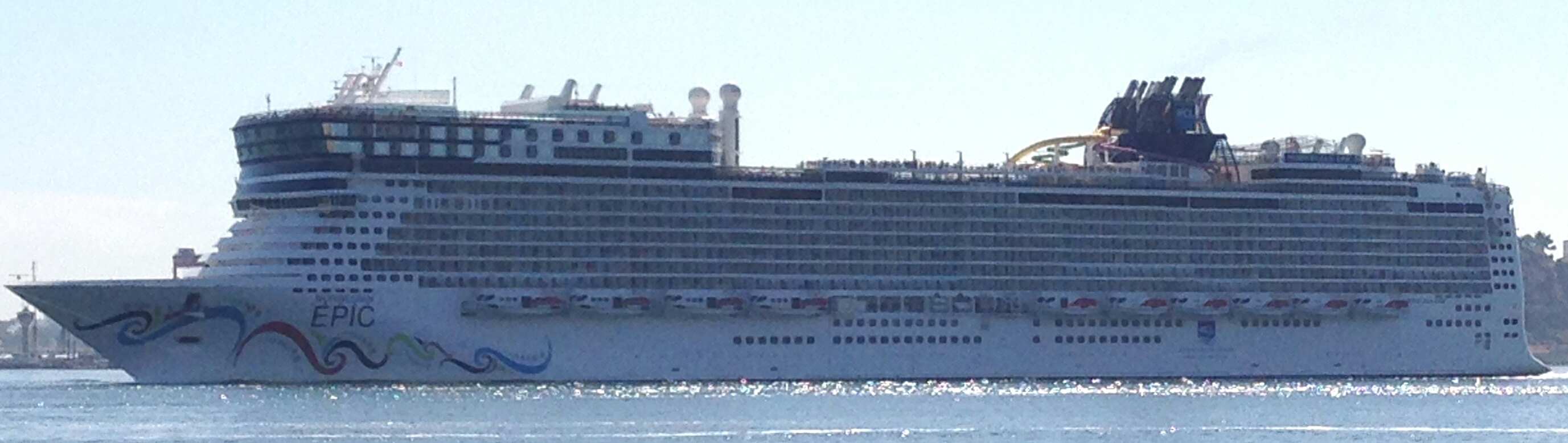 We explored Lisbon over several days, from the beach to the downtown (Baixa) and our own ancient Islamic neighborhood. Much of the time we got around on the iconic Tram 28. You'll several shots of its handsome wooden interior interspersed here (because I can't seem to rearrange the order of the photos.)